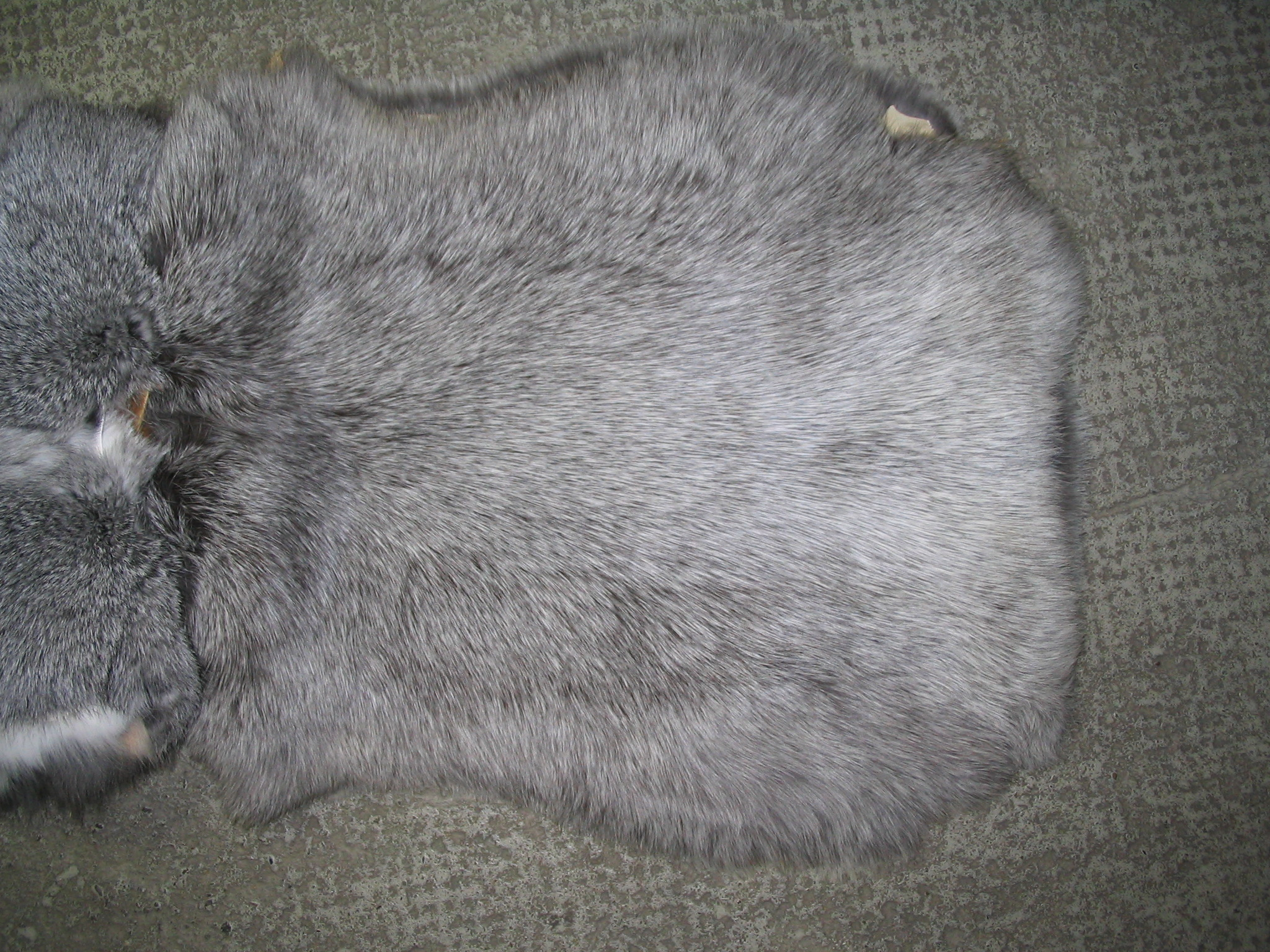 Domestic rabbit fur skin, type: dark silver